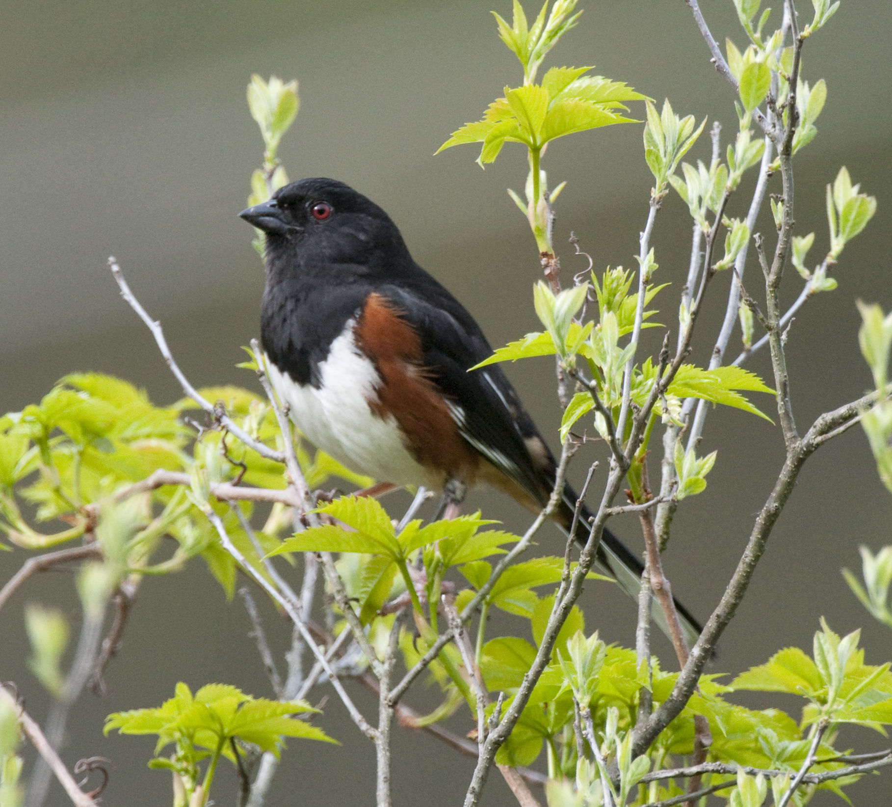 A male Bill Thompson at Quabbin Reservoir, Massachusetts, USA.